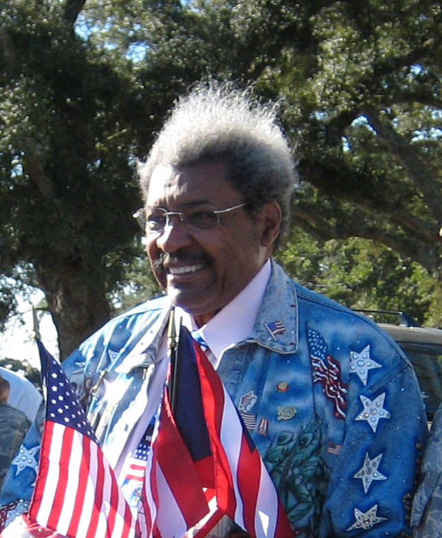 American boxing promotor Don King during a tour of Hurlburt Field, Fla.